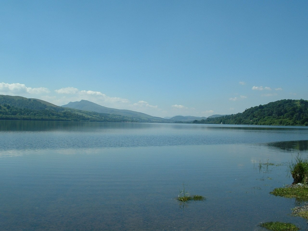 Bala Lake. Taken by Necrothesp, 27 June 2005.